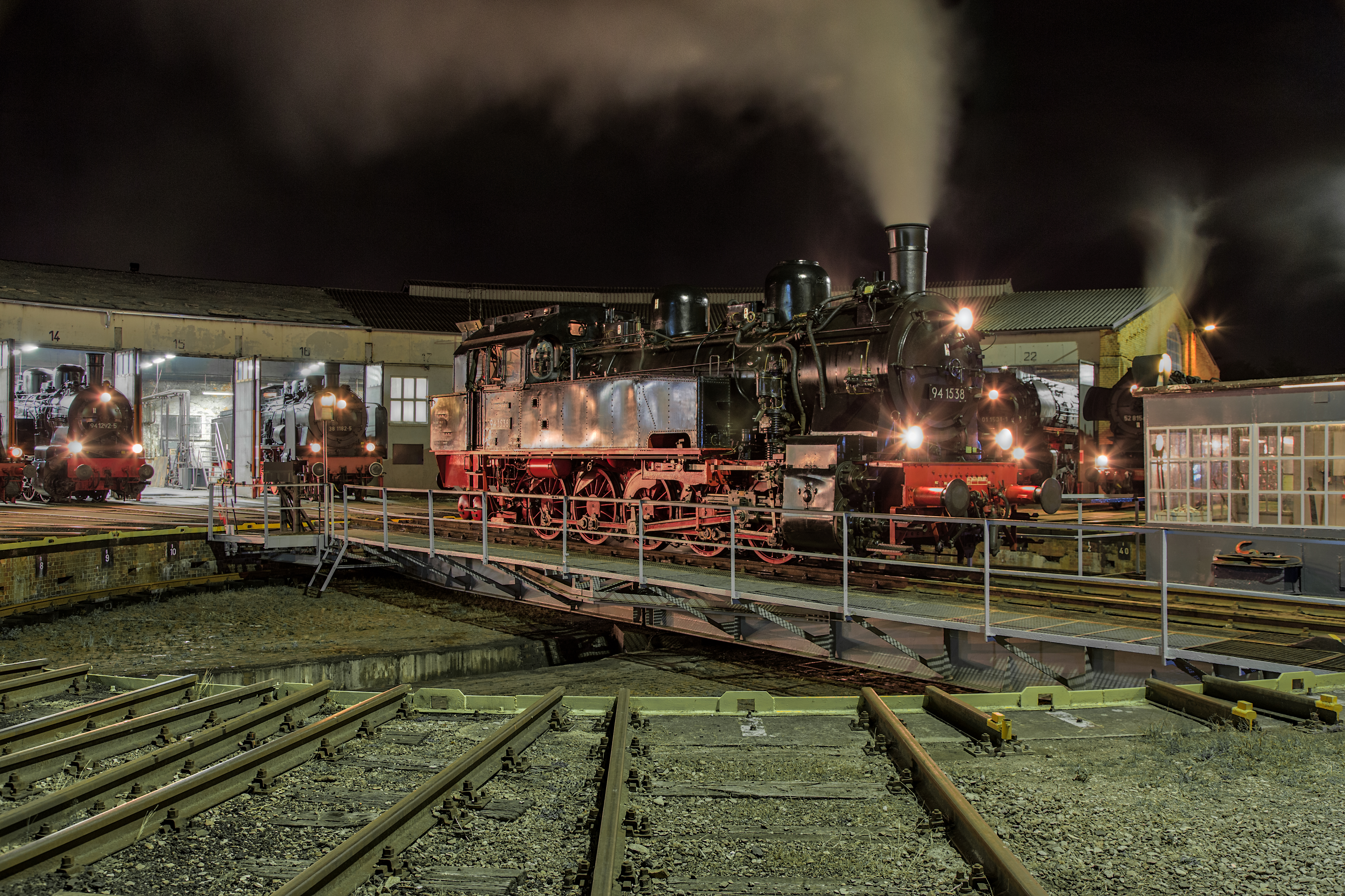 Steam locomotive BR94